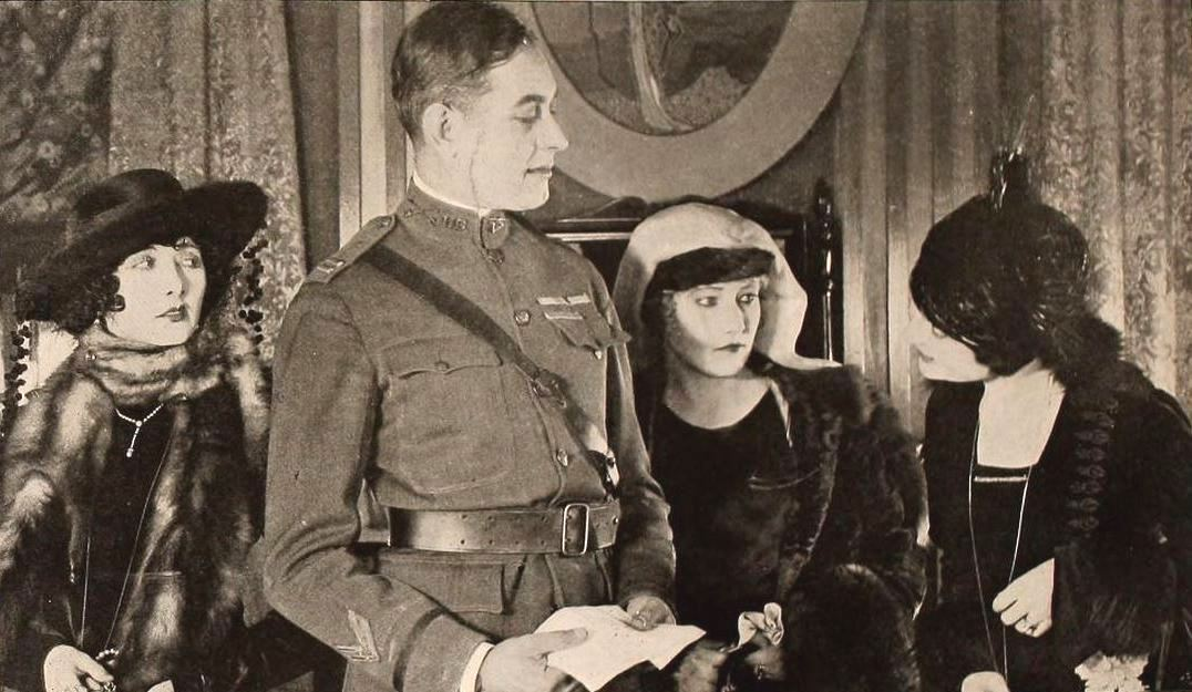 Still for the American film The Devil's Pass Key (1920) with Mae Busch, Clyde Fillmore, Una Trevelyn, and Maude George, from an ad on page 2845 of the March 27, 1920 Motion Picture News. The ad had this caption for the still: He: "Unless Madame Malot cancels the bill against Mrs. Goodwright, I shall put her out of business in Paris." She: "How droll! And shall I, then, have Monsieur le Capitaine cashiered out of his beautiful uniform? Or would he prefer to be known as Mrs. Goodwright's lover?"